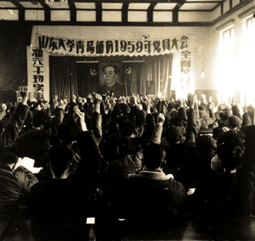 Photograph of a Communist Party meeting at Shandong University in 1959.